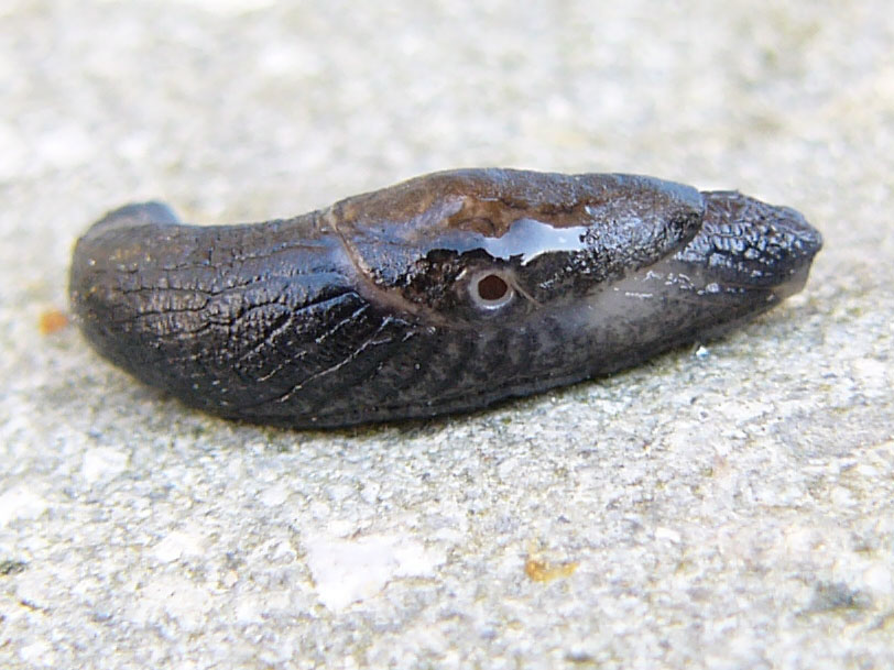 Tandonia budapestensis Locality: CZ, Moravia, Olomouc, Bělidla, Táboritů street, 21 May 2005